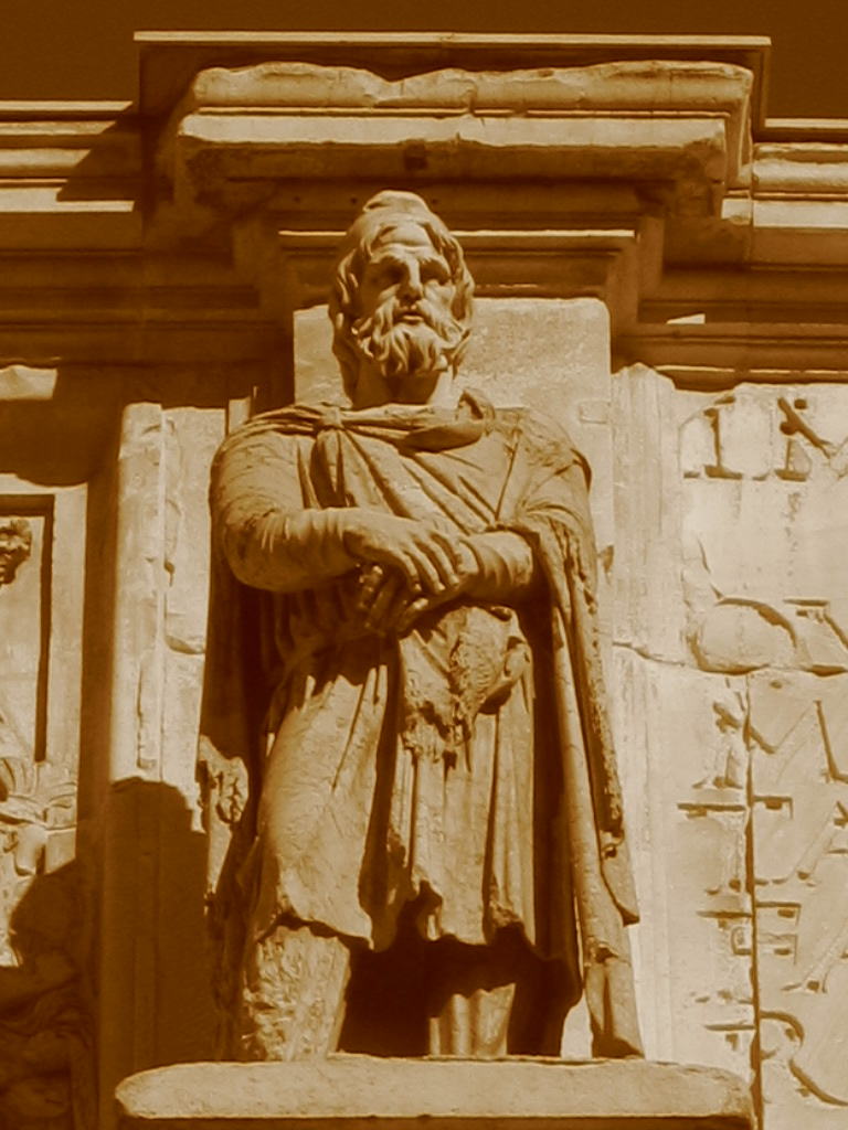 Dacian prisoner on the Arch of Constantine.